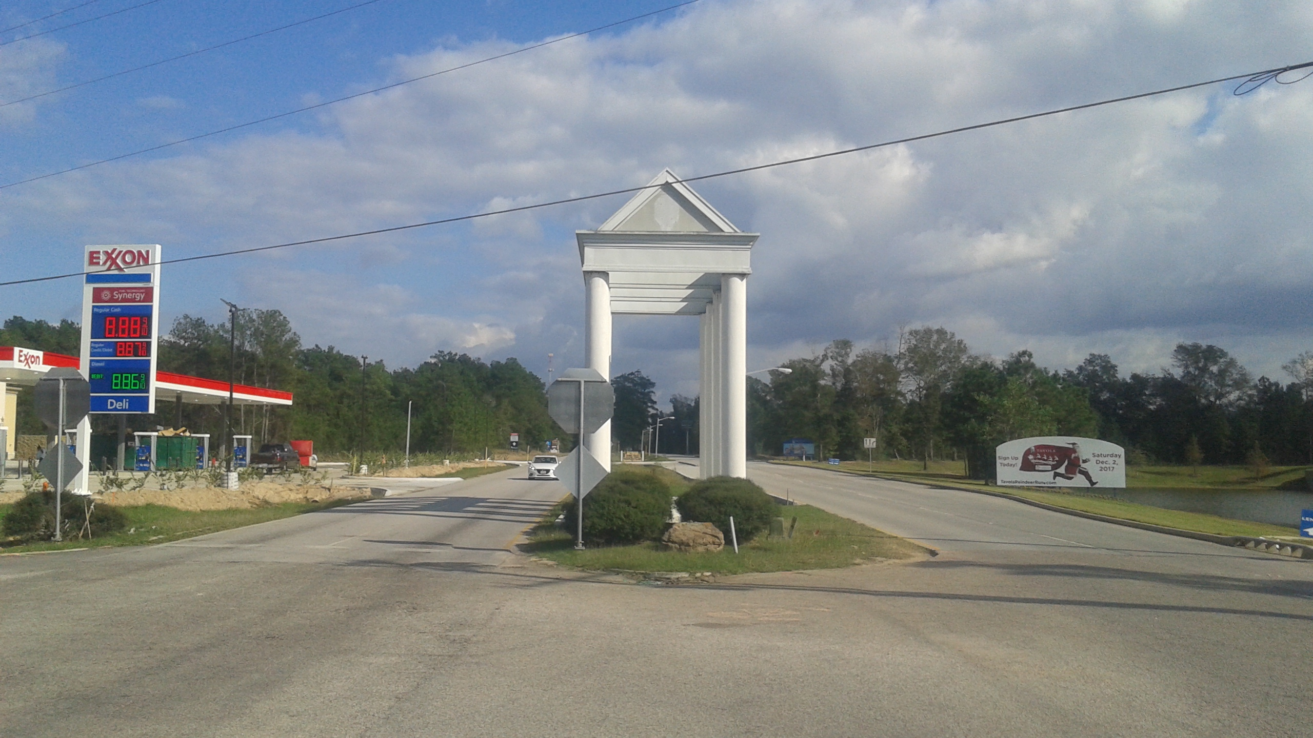 Roman-style pillars on Roman Forest Boulevard near Interstate 69 in unincorporated Montgomery County, Texas, near the city of Roman Forest.